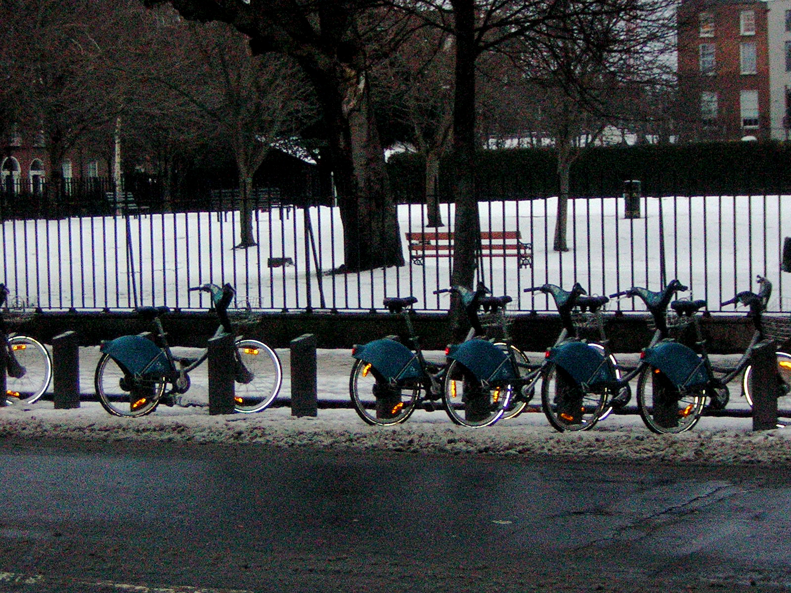 Photograph of DublinBikes Station on Mountjoy Square, Dublin, Ireland in the snow, taken in January 2009 by Ciaran Davis.